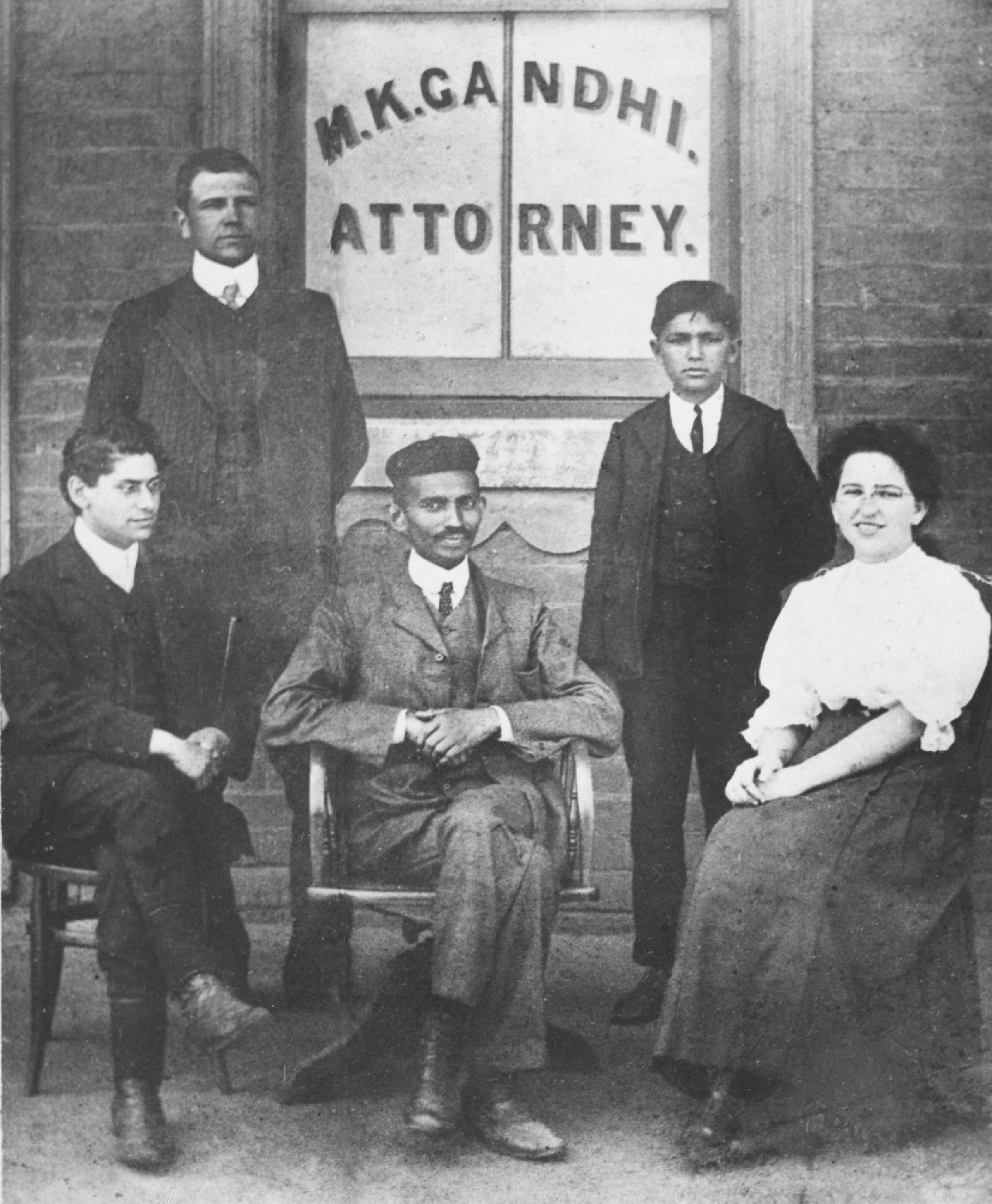 Gandhi (center) with his secretary, Miss Sonia Schlesin, and his colleague Mr. Polak in front of his Law Office, Johannesburg, South Africa, 1905.